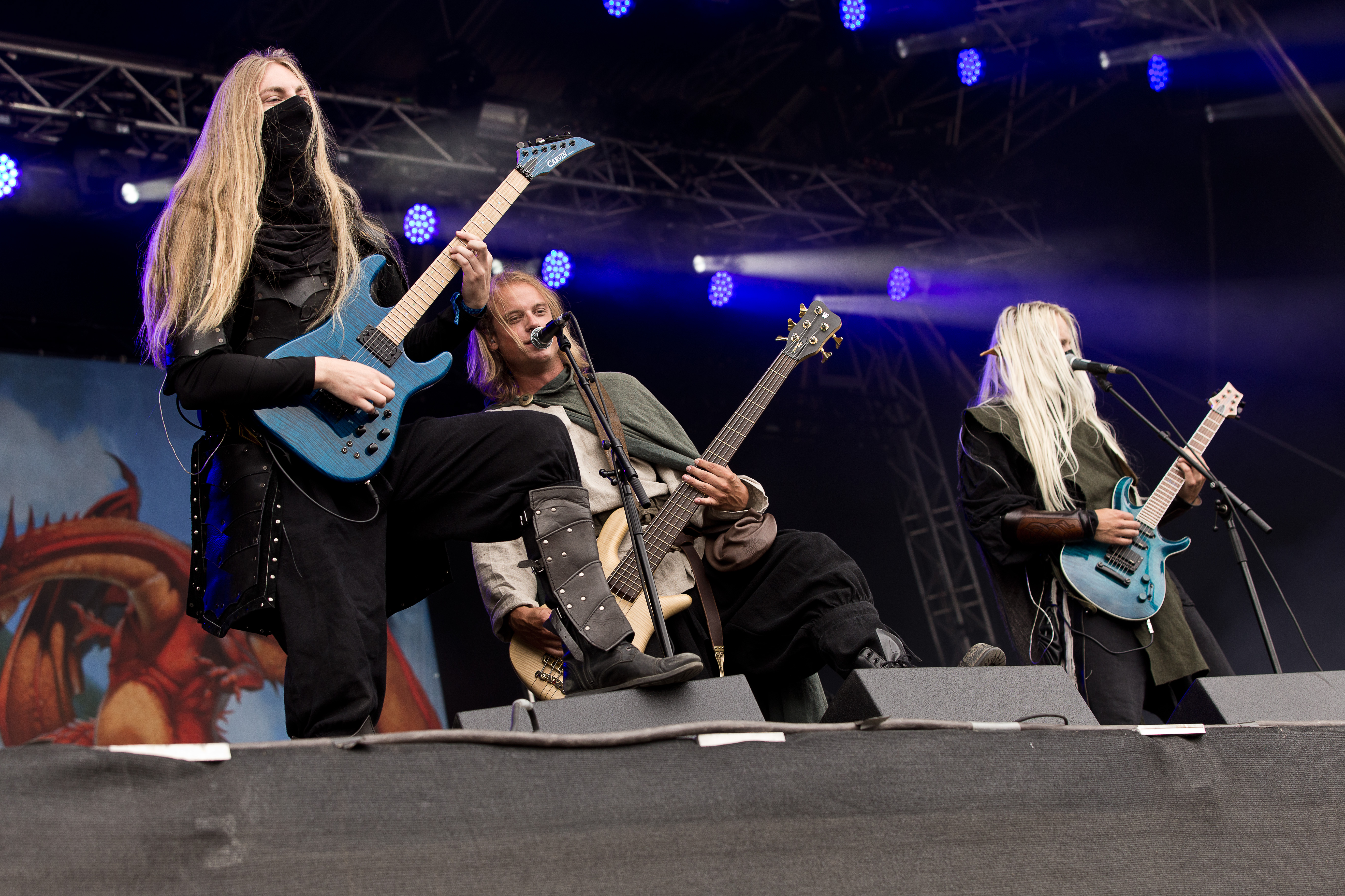 The Swedish power metal band Twilight Force at the Rockharz Open Air 2016 in Ballenstedt/Germany.